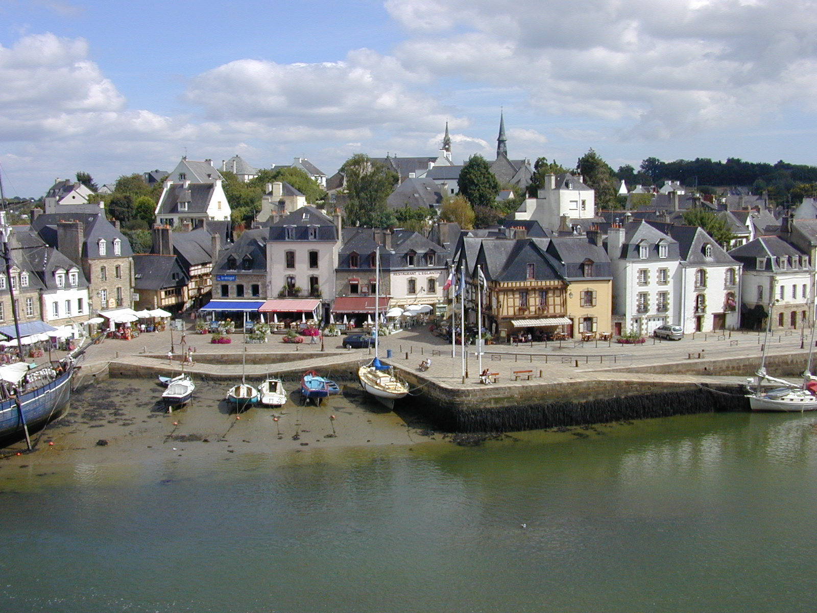 Auray port. August 2002, by William M. Connolley.